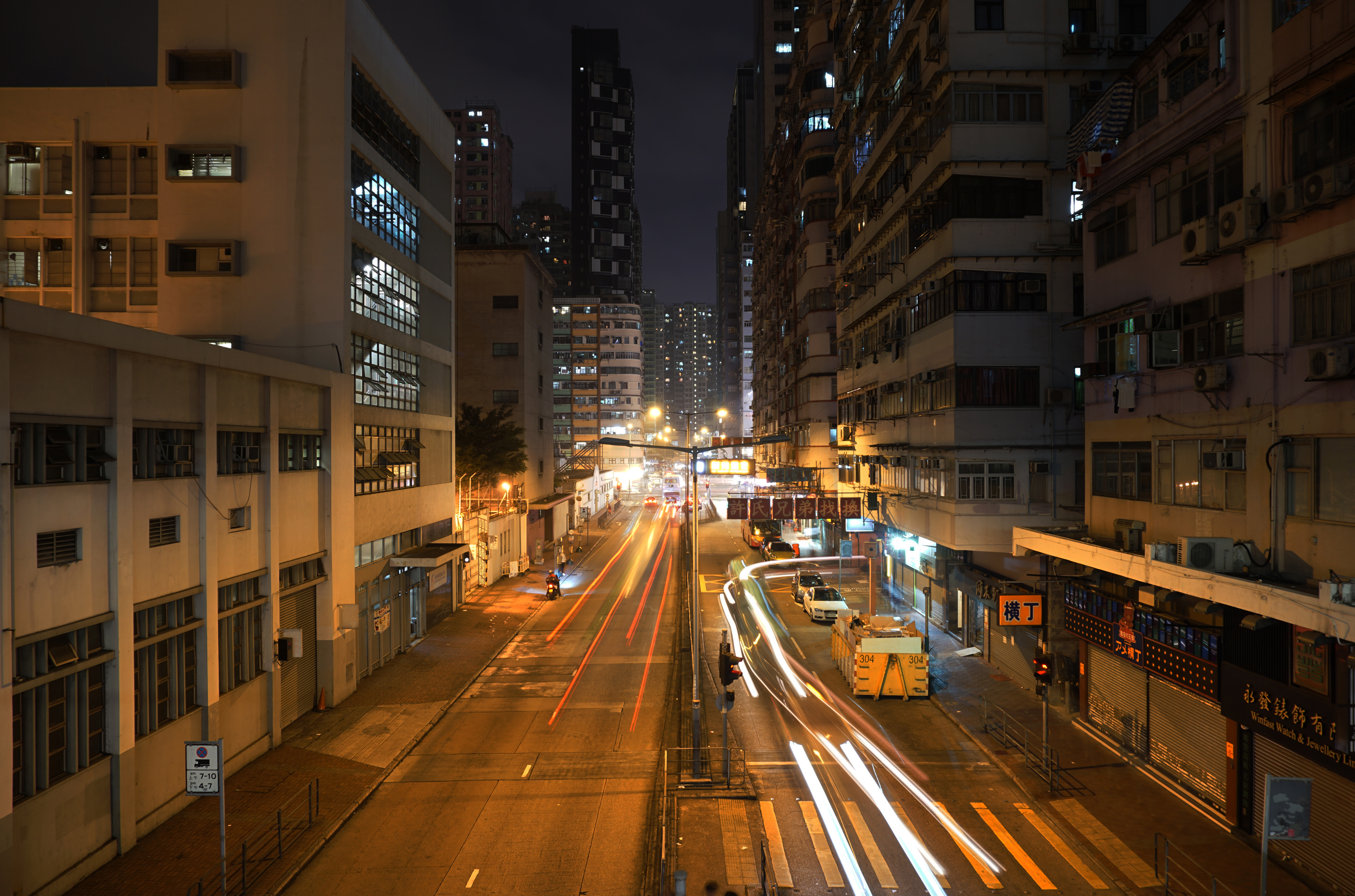 Sai Yee Street in Mong Kok, Hong Kong.